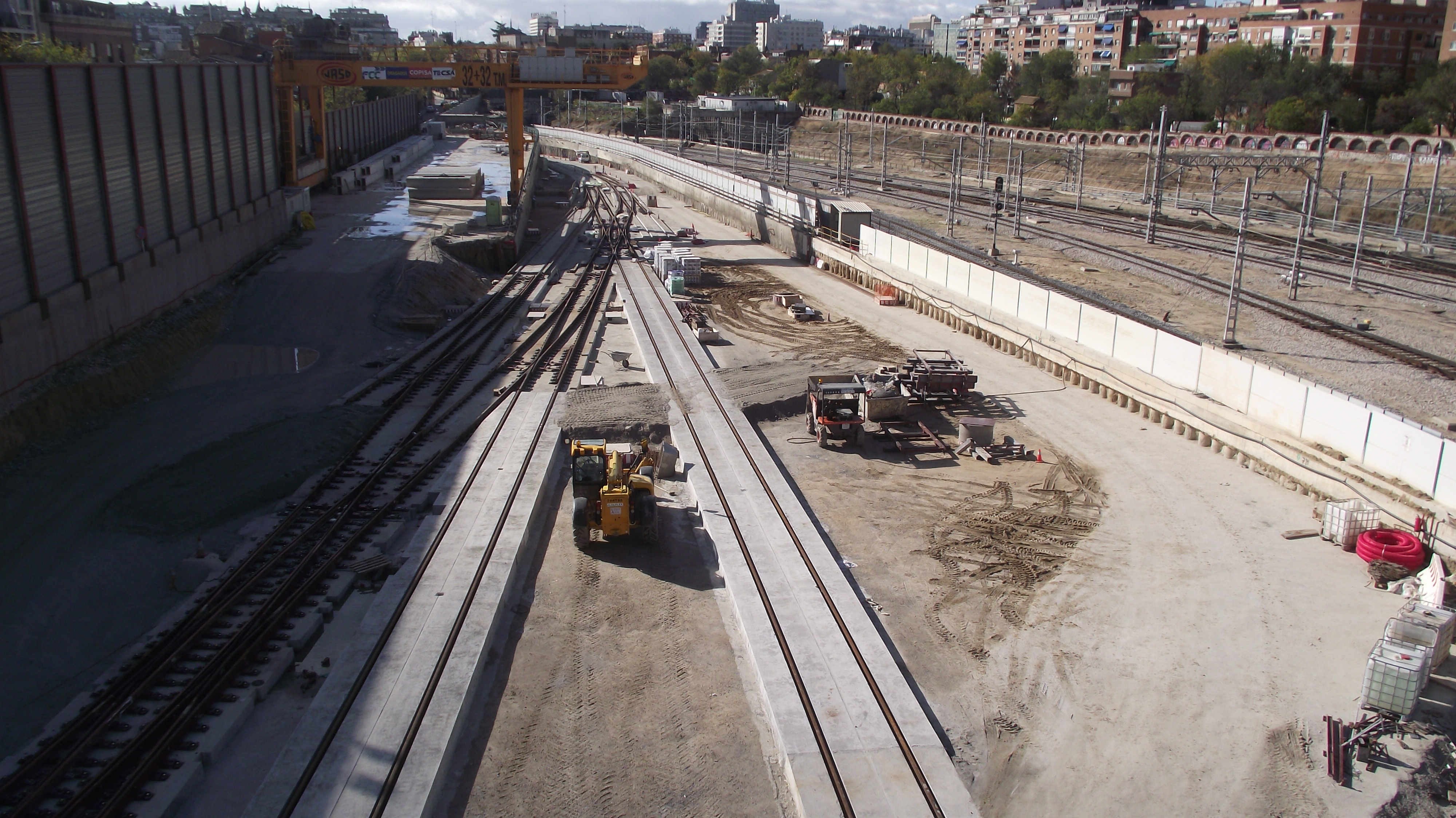 Start of the new north-south tunnel for the normal gauge high speed trains in Charmartin station.